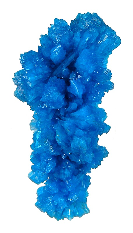 Cavansite Locality: Wagholi Quarry, Wagholi, Pune District (Poonah District), Maharashtra, India (Locality at ) Size: miniature, 3.6 x 2.1 x 1.8 cm Cavansite stalactite (!!) This is a fine and rare stalactitic specimen of deep, teal blue, lustrous, translucent cavansite. At the wider base of this piece the radial pattern of cavansite is in evidence, measuring 2.0 cm across.